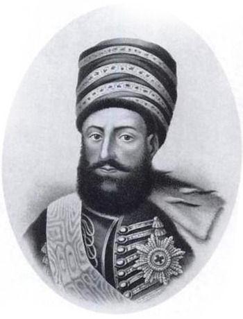 Erekle II, King of Georgia